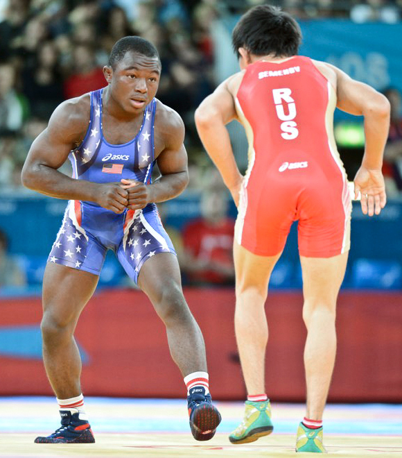 U.S. Army World Class Athlete Program SGT Spenser Mango loses 2-0, 1-0 to Russia's Mingiyan Semenov in the first round of repechage in the 55-kilogram/121-pound Greco-Roman division of the Olympic wrestling tournament Aug. 5 at ExCel North Arena in London. Mango went 1-2 and finished ninth in his weight class. U.S. Army photo by Tim Hipps, IMCOM Public Affairs